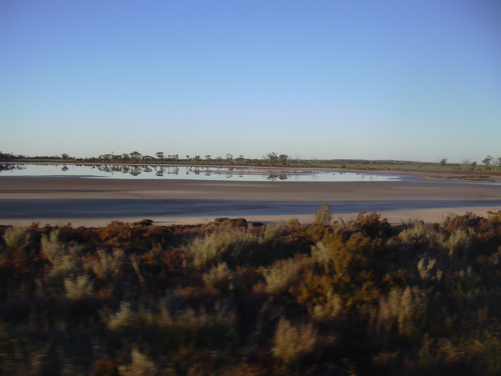 wheatbelt salinity damages (near Babakin)